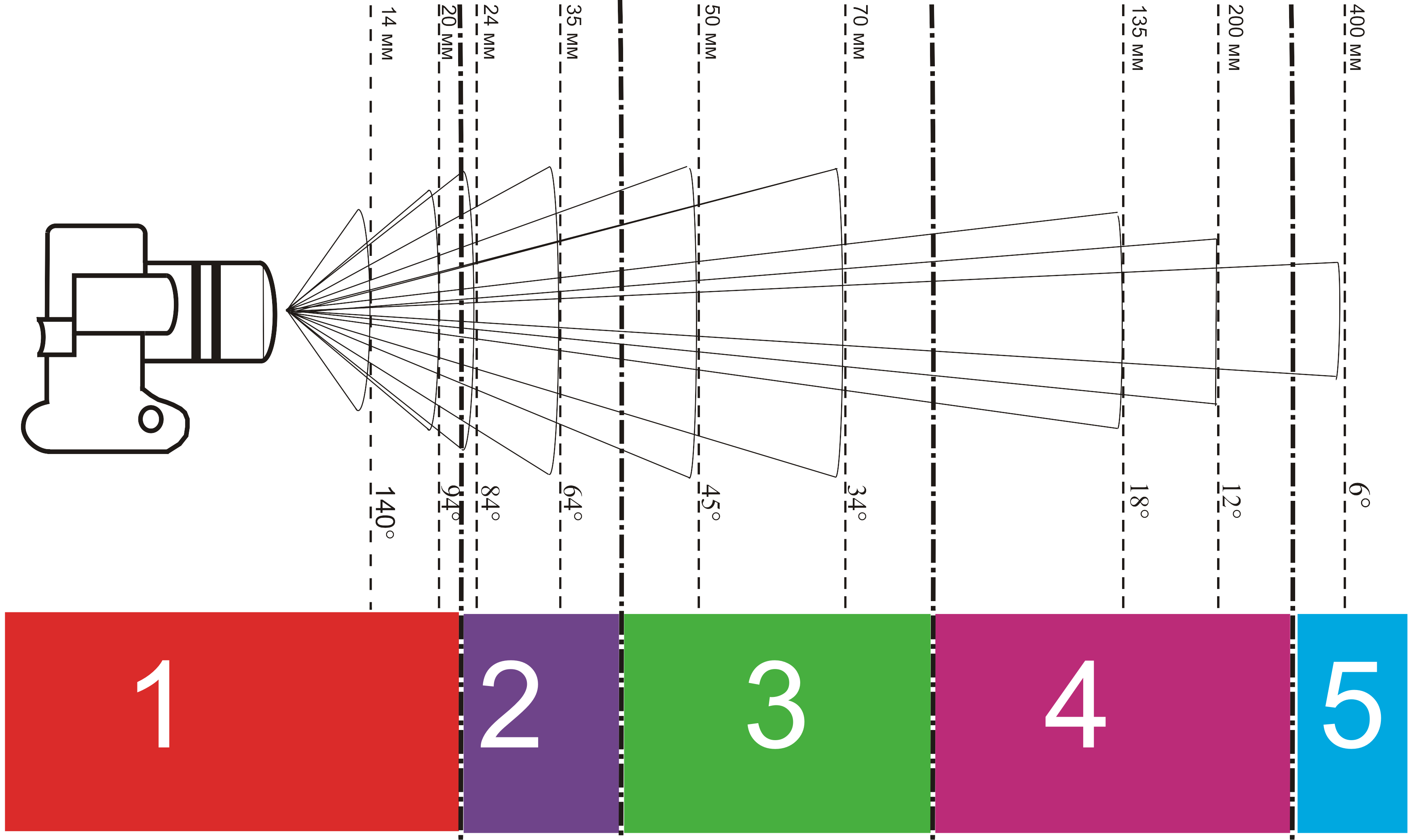 Photo lenses with a focal length and angle. 1: ultra wide 2: wide angle 3: normal 4: short telephoto (70-85mm) / medium telephoto (100-200mm) 5: super telephoto (300-400mm) / ultra telephoto (500-1200mm)